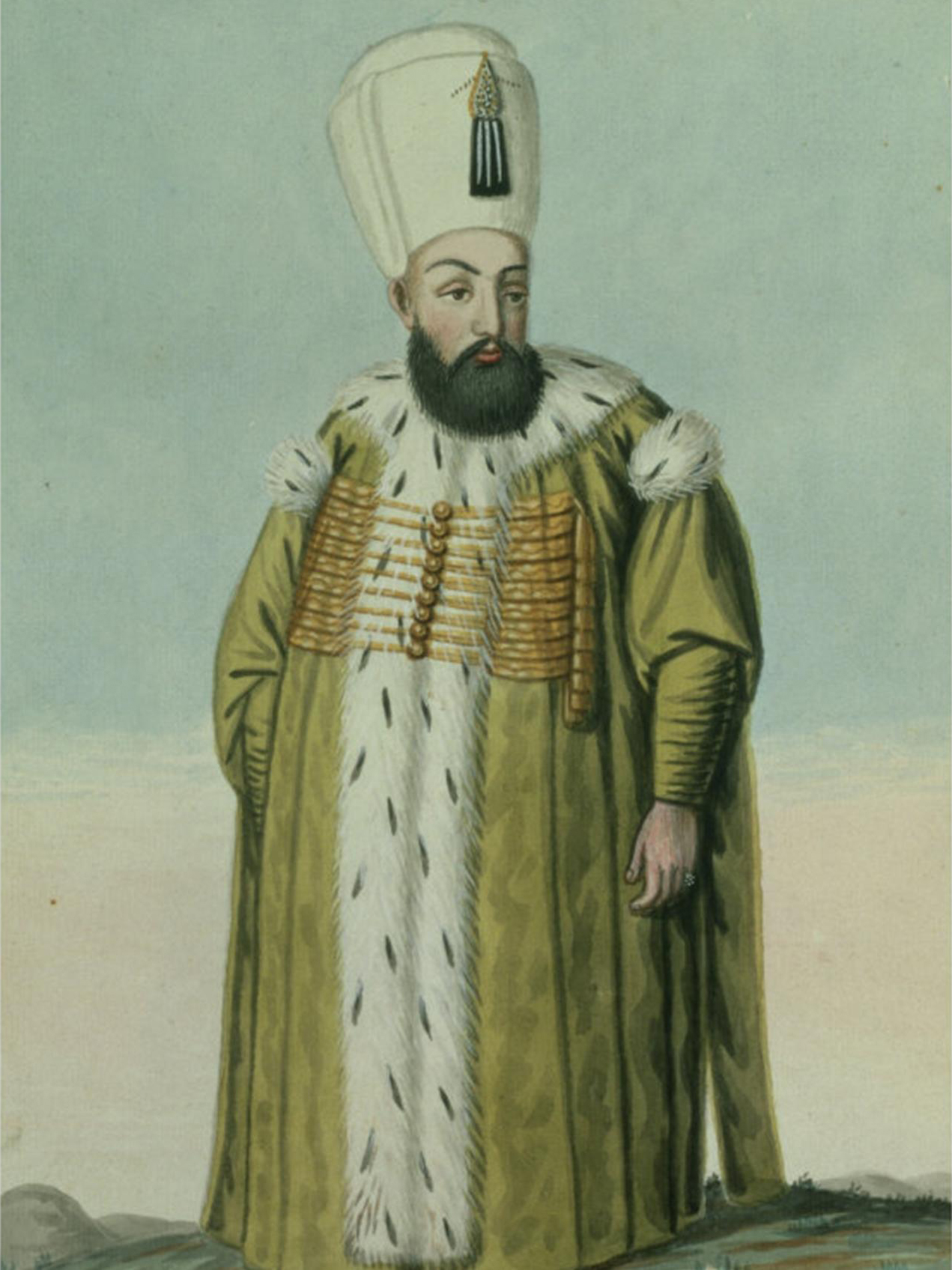 Portrait of Murad III, Sultan of the Ottoman Empire (1574-1595). The portrait has been printed using the Giclée process.